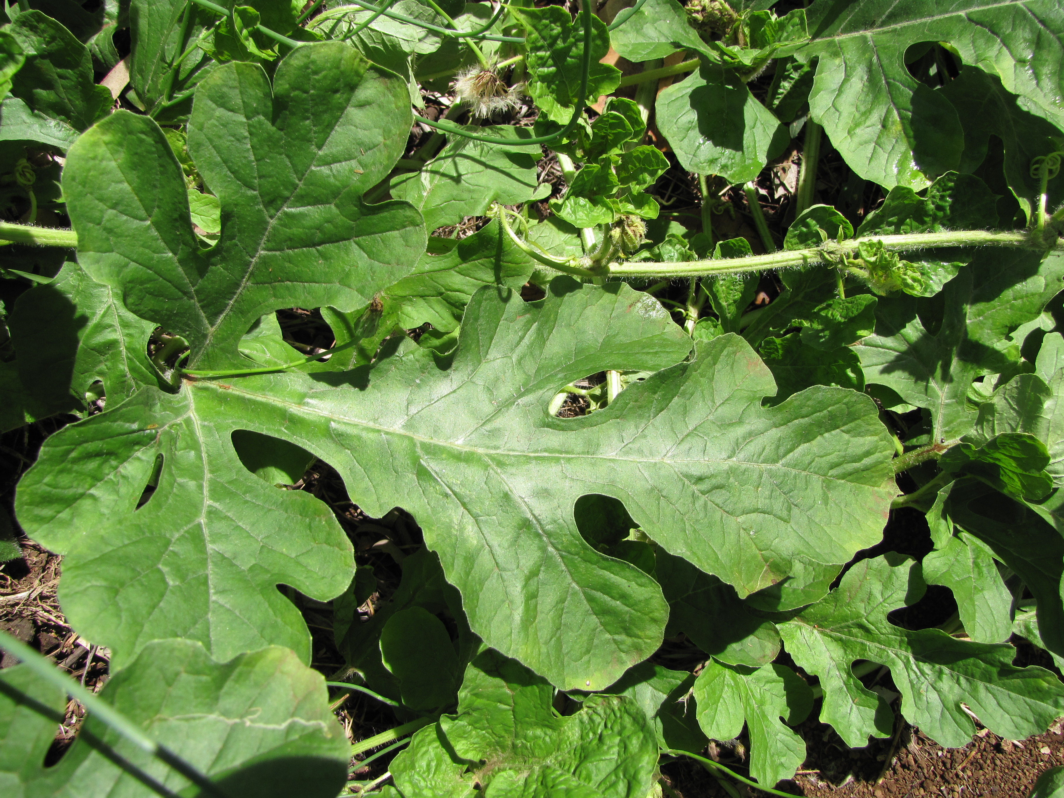 Citrullus lanatus (Watermelon) Leaf at Olinda, Maui, Hawaii. November 08, 2009 #091108-9410 Image Use Policy Also known as Citrullus vulgaris.